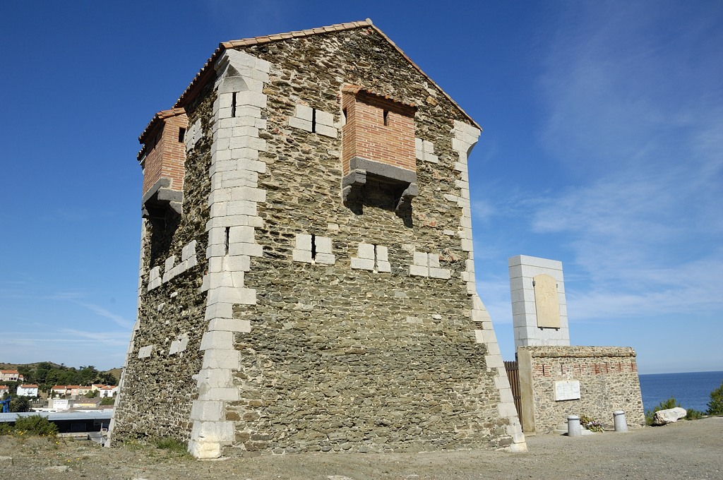 Redoute Béar